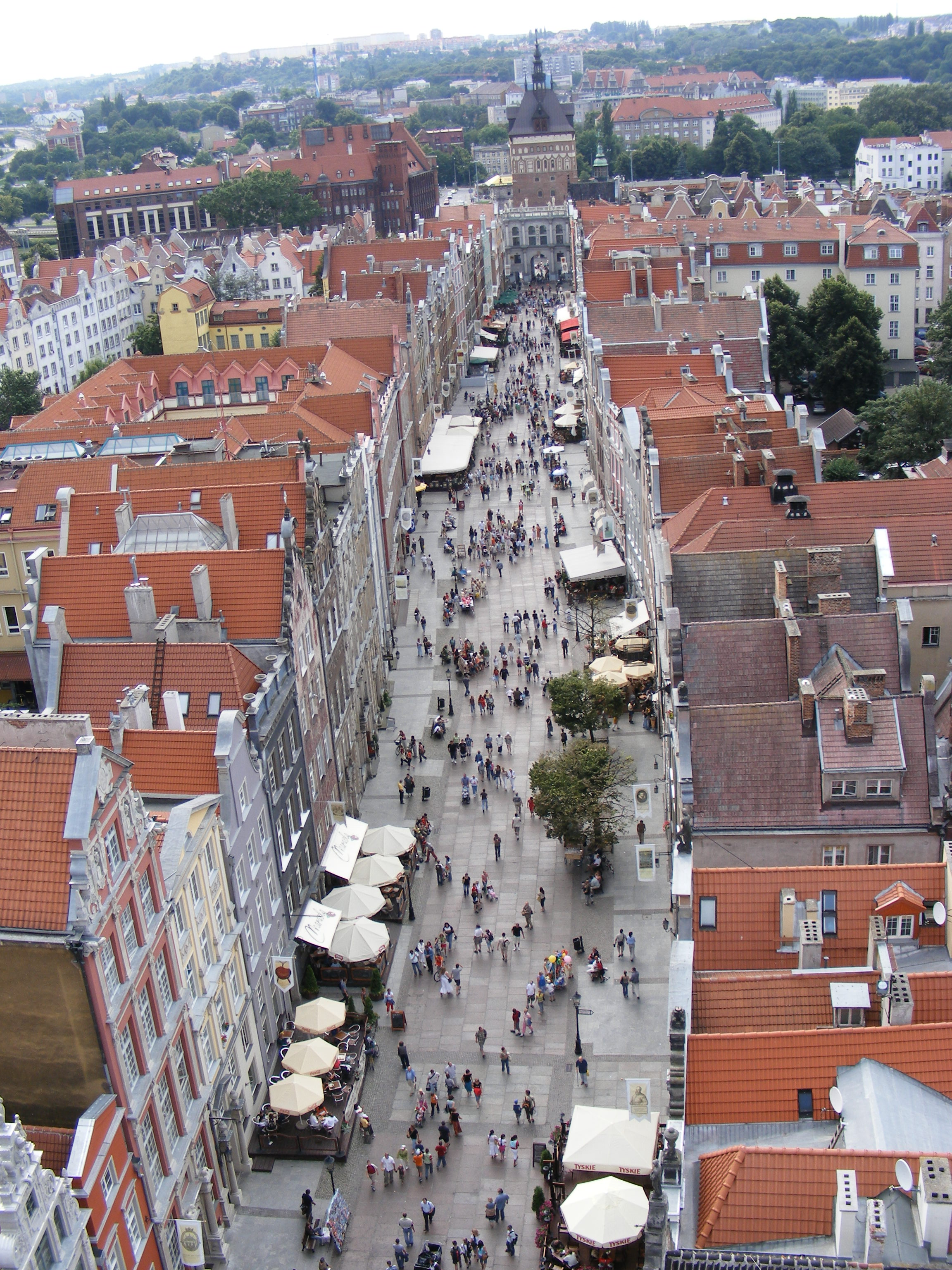 The Długa Street in Gdańsk, Poland. View from the tower of the City Hall